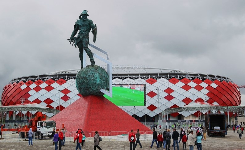 Otkrytie Arena